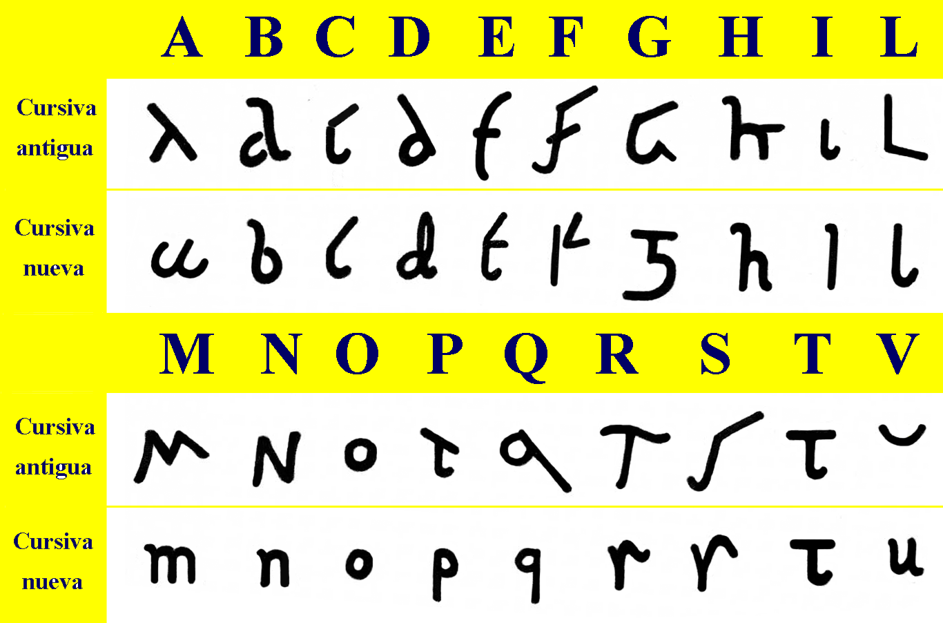 Roman cursive letters, old and new ones